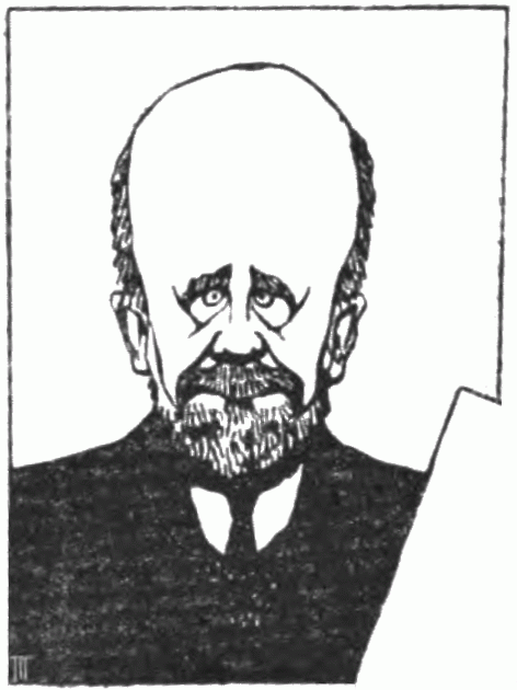 Grga Tuškan (1845–1923), Croatian politician